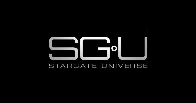 stargate universe logo